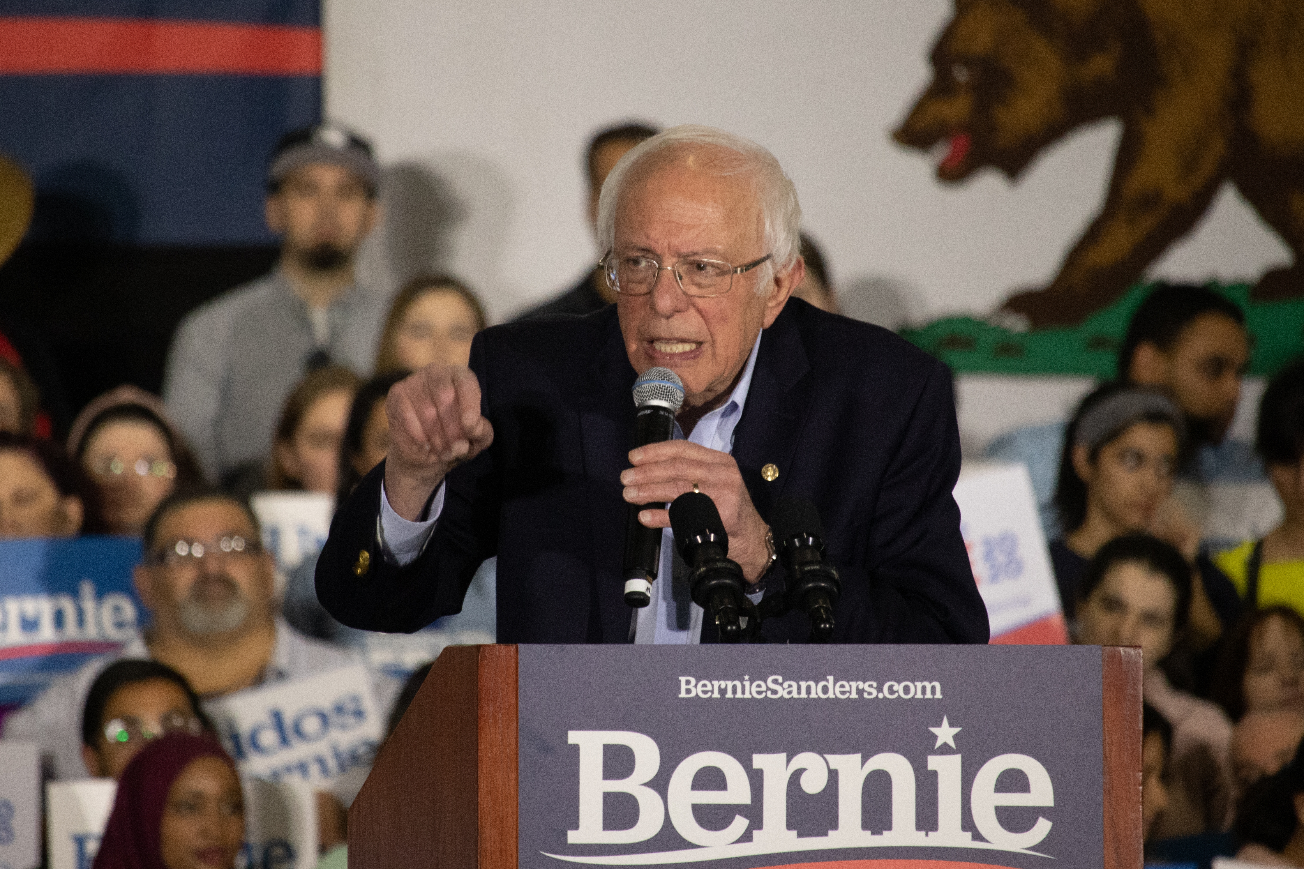 U.S. Senator Bernie Sanders speaking at a campaign rally on 1 March 2020.